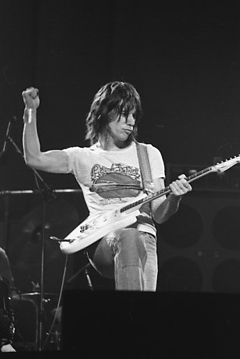 Jeff Beck performing in 1973